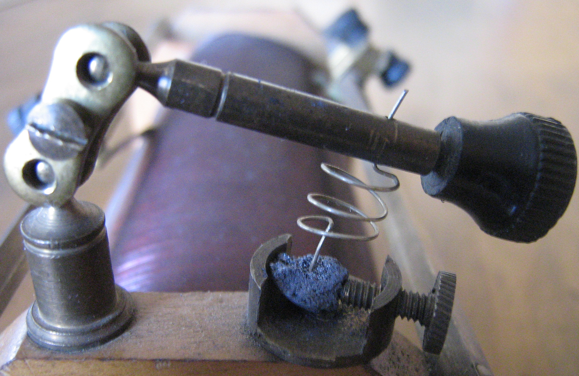 Galena cat's whisker detector from an antique crystal radio. This antique radio component consists of a wire on an adjustable arm that touches the surface of a crystalline pebble of galena (lead sulfide). It formed a crude semiconductor diode, which allows current to flow in one direction but blocks current flowing in the other direction. It's function was to rectify the radio signal, changing it from alternating current to a pulsing direct current, to extract the audio (sound) signal from the radio frequency carrier wave.